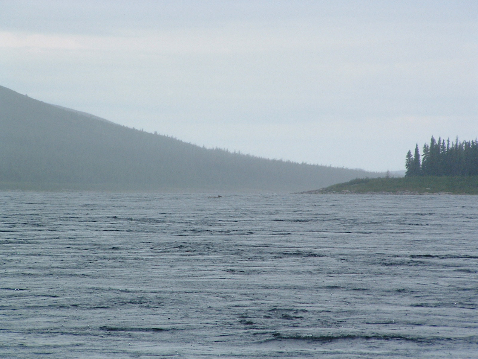 Caribou swimming accross George River, Quebec